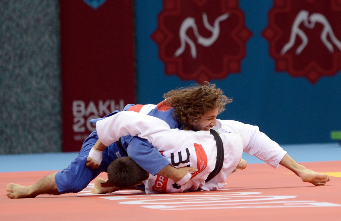 Judo at the 2017 Islamic Solidarity Games